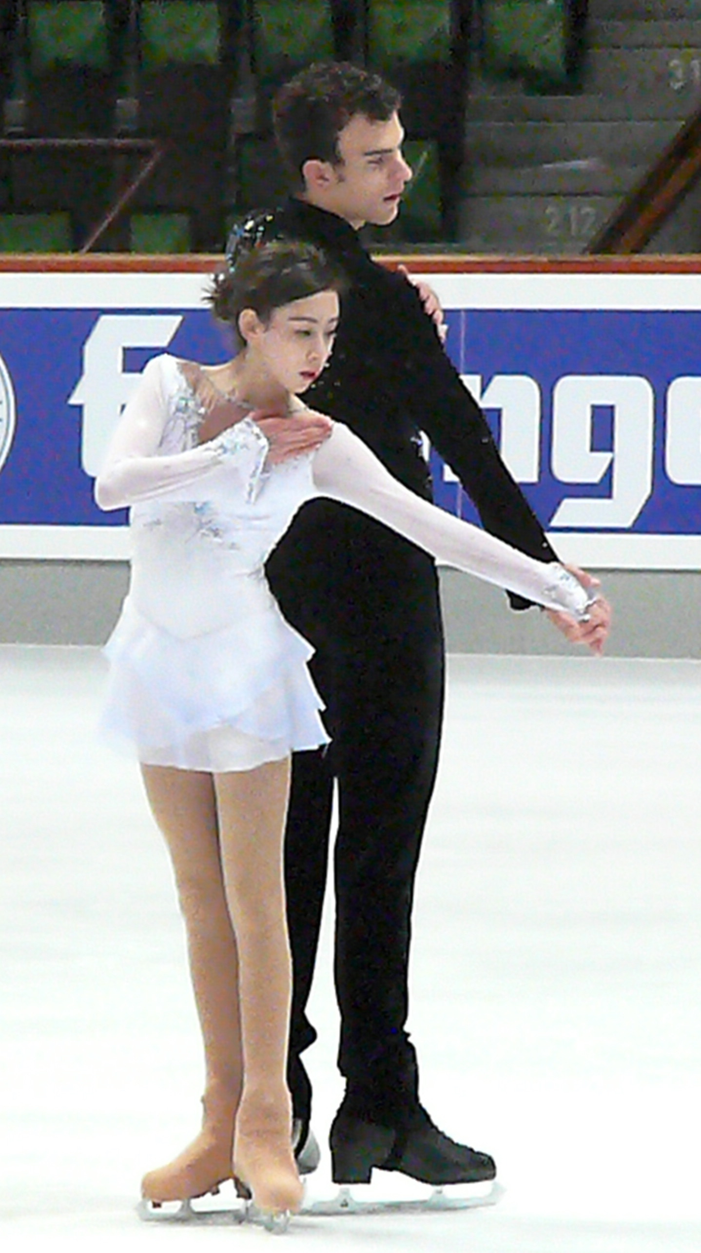 Rechel Kirkland and Eric Radford (CAN) at the short program of the Nebelhorn Trophy 2007 in Oberstdorf/Germany